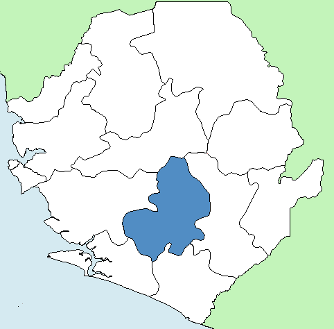 Map showing location of Bo District in Sierra Leone